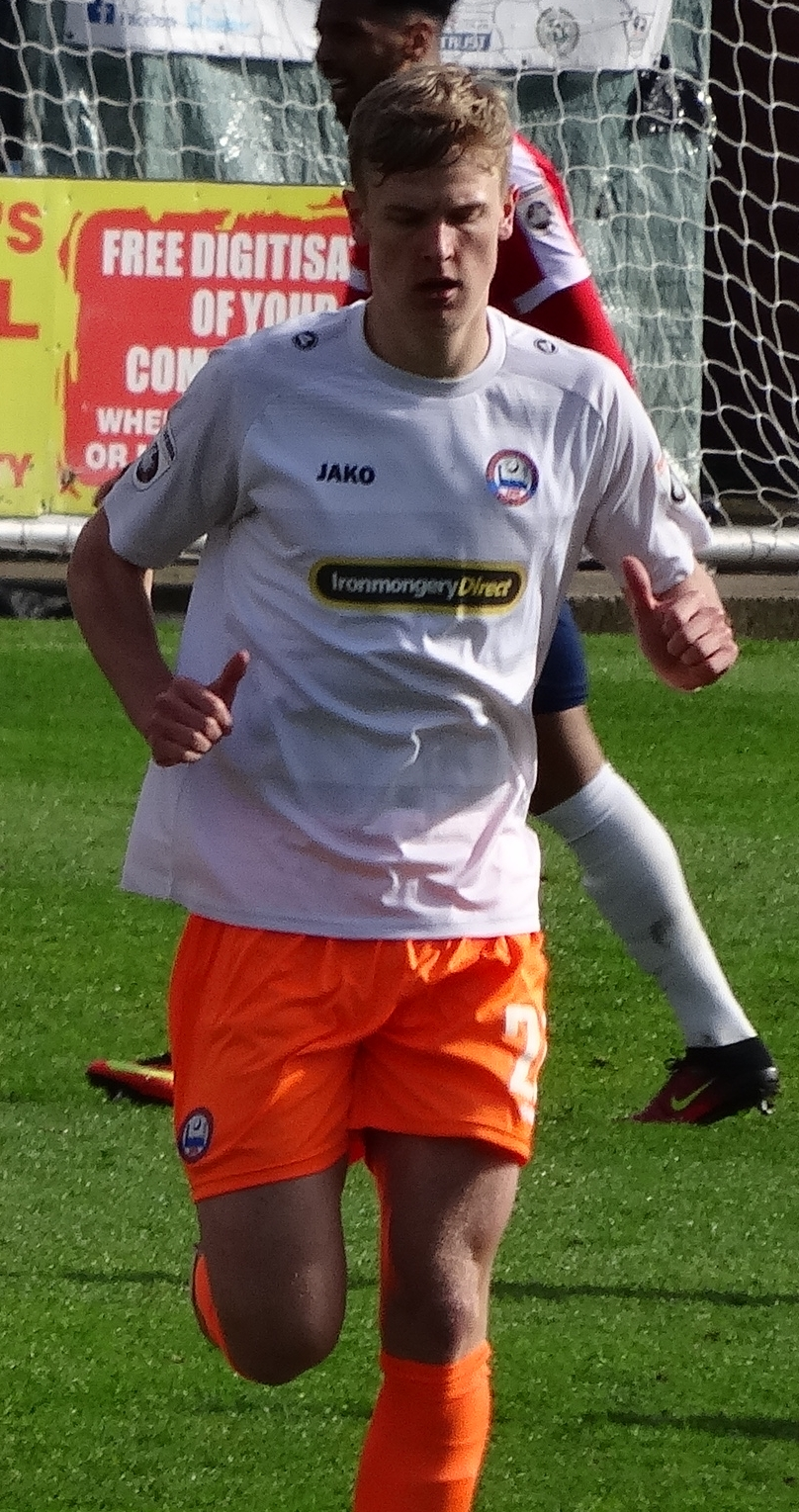 Kris Twardek playing for Braintree Town against York City at Bootham Crescent, York on 1 April 2017